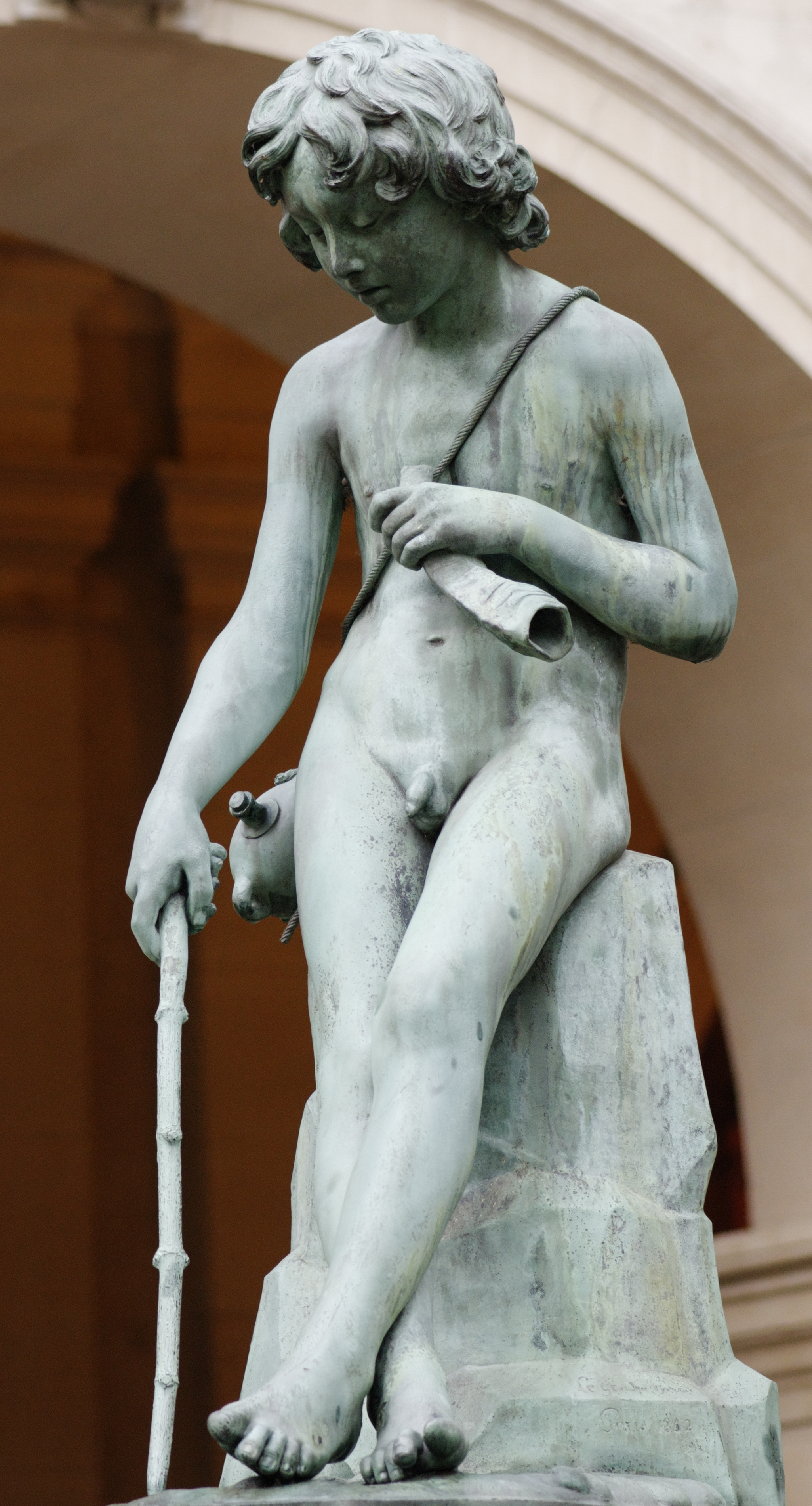 Giotto as a child, bronze cast by Soyer, 1842.